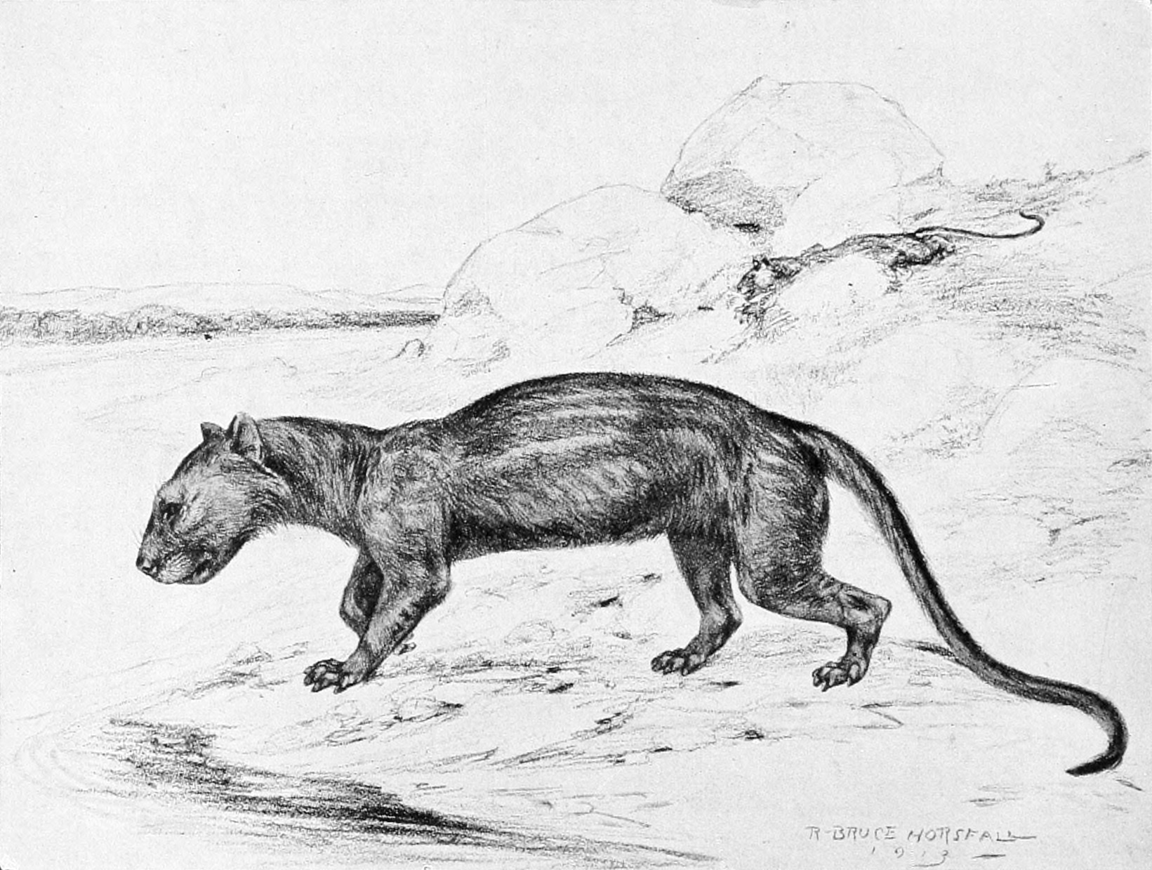 Life restoration of Oxyaena lupina from W. B. Scott's (1858–1947) A History of Land Mammals in the Western Hemisphere. New York: The Macmillan Company.